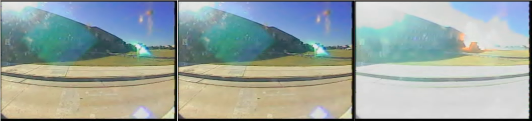 The three "hot" pictures of the video